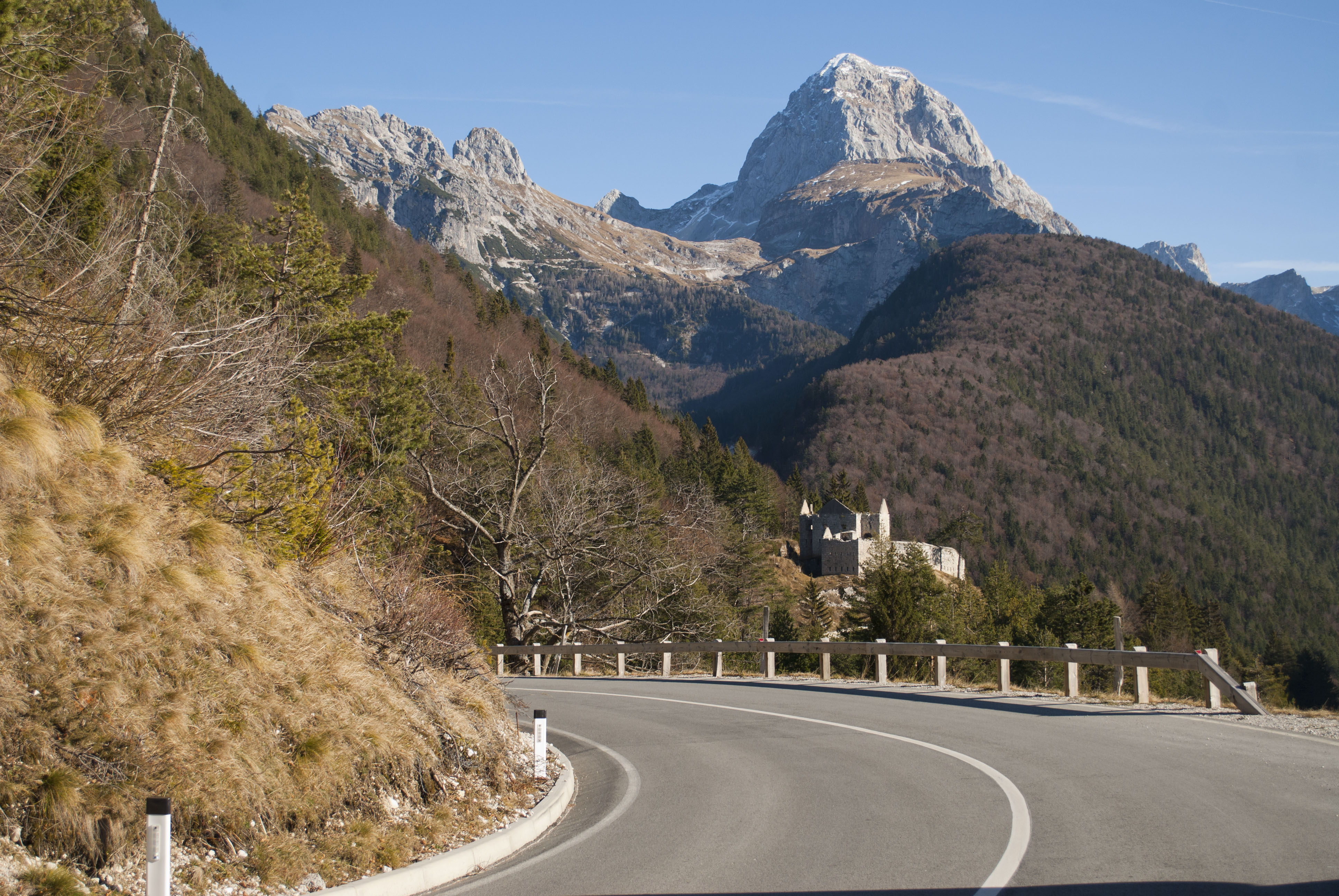 Fort Predel on the Predil Pass and Mangart, municipality Bovec, Slovenia, EU